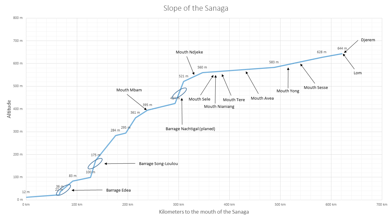 Slop of the Sanaga; Data source * J. C. Olivry, Fleuves et rivières du Cameroun, collection « Monographies hydrologiques », no 9, ORSTOM, Paris, 1986